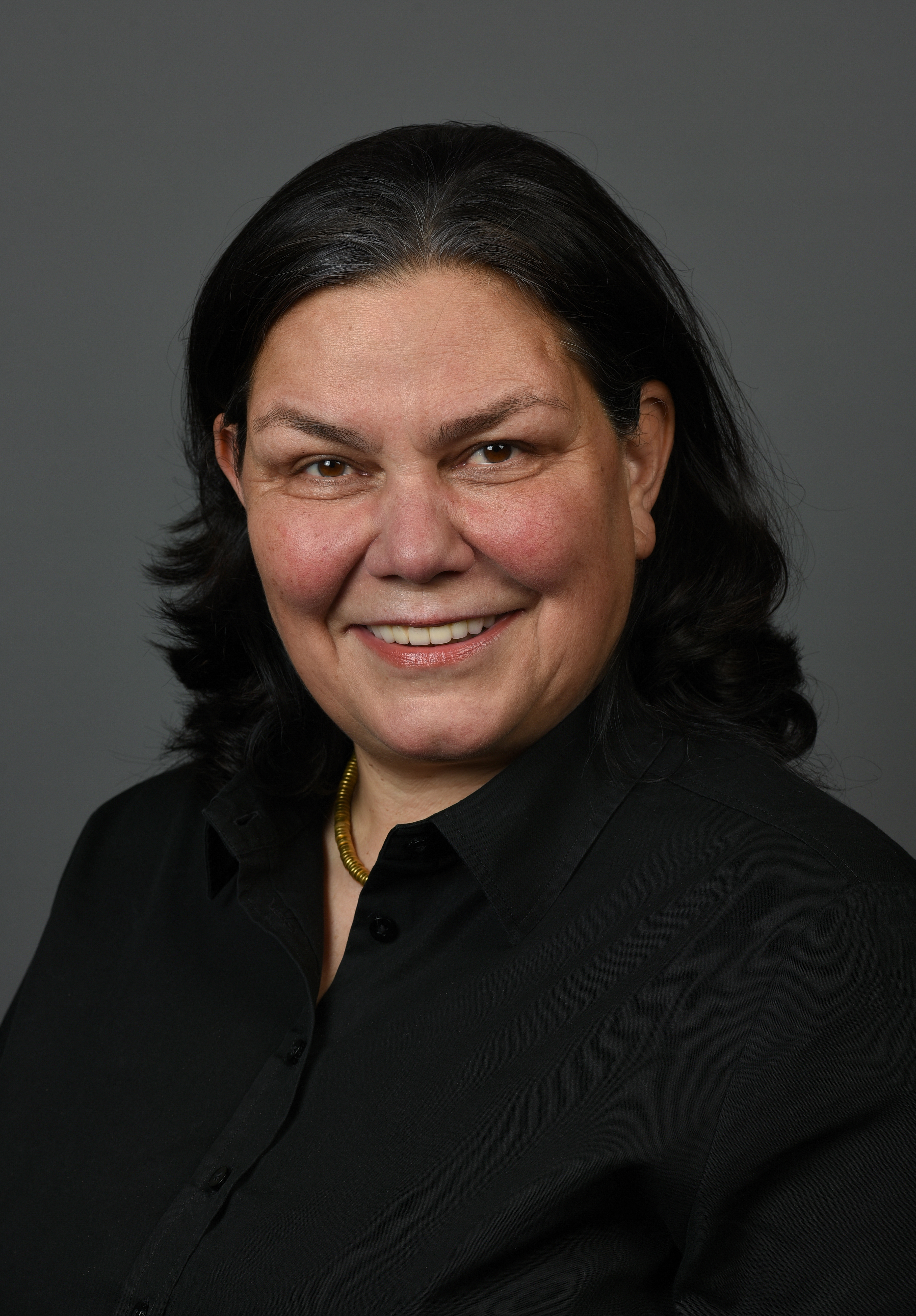 Anja Kofbinger, Bündnis 90/Die Grünen, Member of the Abgeordnetenhaus of Berlin, 2017.